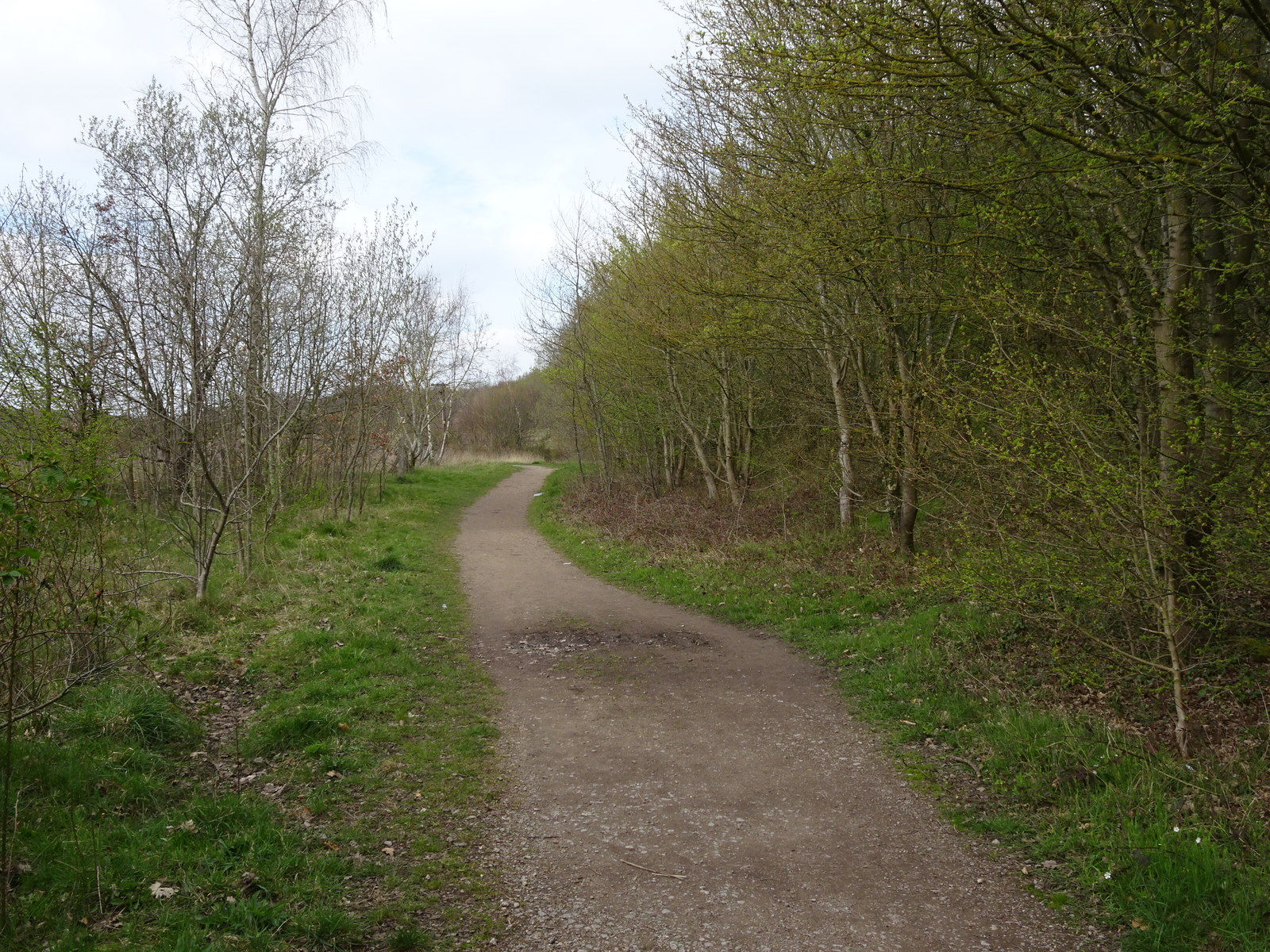 Westwood railway station (site), YorkshireOpened in 1854 by the South Yorkshire Railway, later part of the Manchester Sheffield & Lincolnshire Railway, on the Blackburn Valley line from Sheffield Victoria to Barnsley (Stairfoot). This station was rebuilt in 1876 by the MSLR when the track was doubled, but closed in 1940. View north west towards Birdwell & Hoyland Common and Barnsley. This viewpoint would have been on the track between the two platforms with the main buildings on the right and an unusually tall signal box to the left of the track in the distance. It was very isolated with only a few collieries and some rows of terraced housing in the vicinity, all of which have also disappeared. The area is now within a country park.